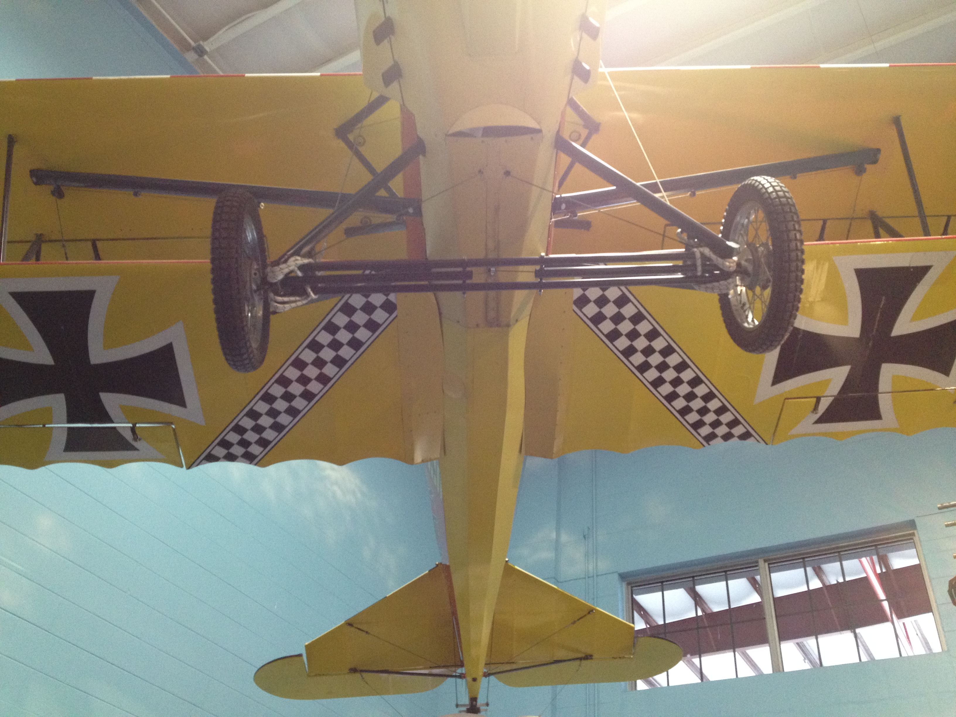 Kermit Weeks' first homebuilt plane, the White Der Jäger D.IX (N30KW). Currently on display at Fantasy of Flight in Polk City, FL.